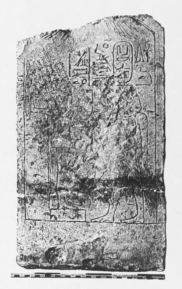 Stele depicting a pharaoh Sobekhotep (right) in front of the god Min. According to Lexikon der Ägyptologie vol 5, p. 1046, the king depicted is Khaneferre Sobekhotep IV, 13th dynasty, Second intermediate period. Limestone from north Abydos, Temple of Osiris. Cairo Museum, CG 20146.